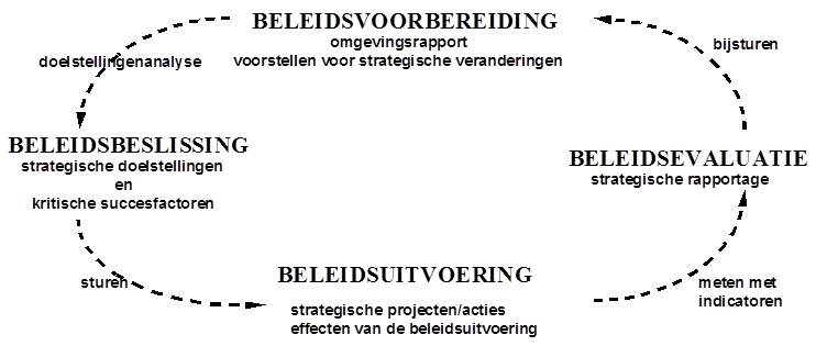 Policy cycle is a tool used for analyzing the development of a policy item. It can help to visualize how policy design and/or policy learning takes place on a general level.